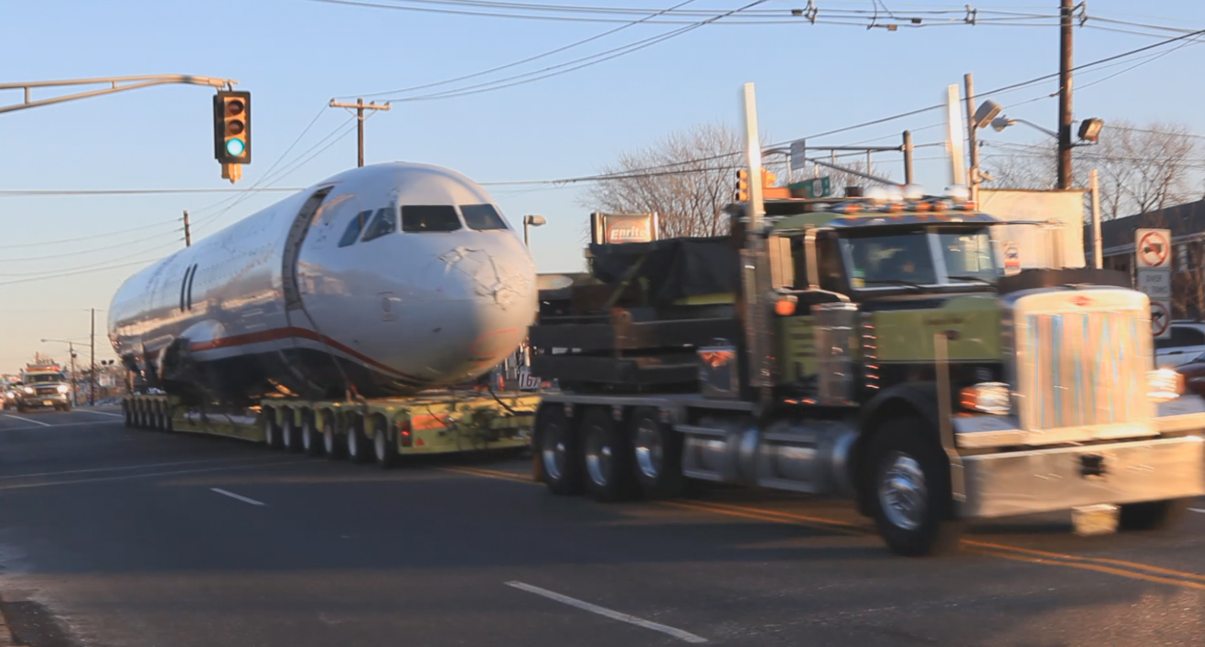 The body of US Airways Flight 1549 on Route 46 in New Jersey, being towed to Harrison, N.J. for further inspection.